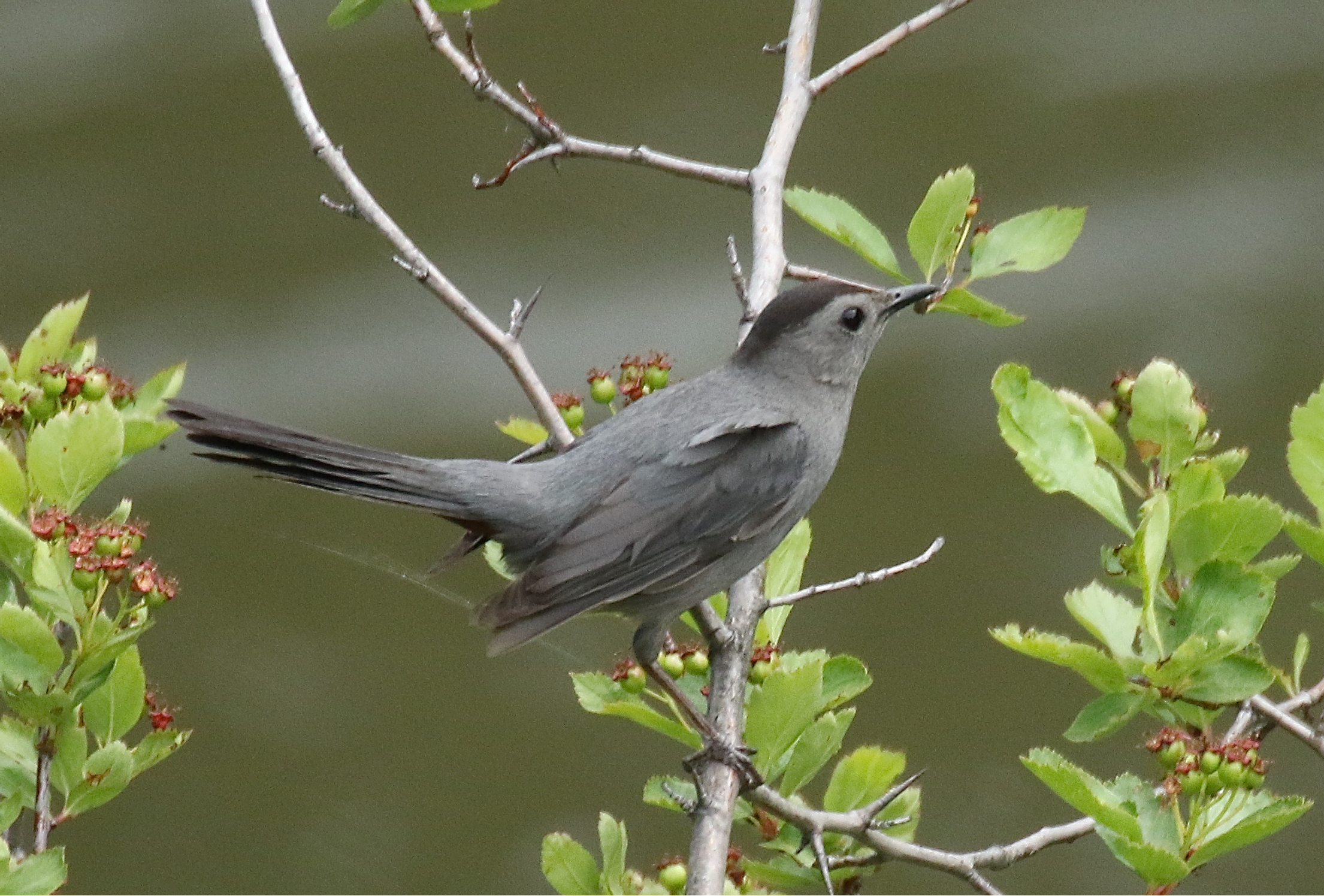 On the road from Stanley to Boise, Idaho